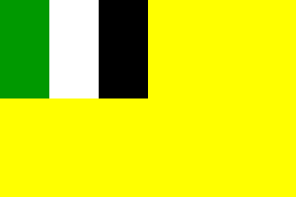 The Flag of Greater Accra Region